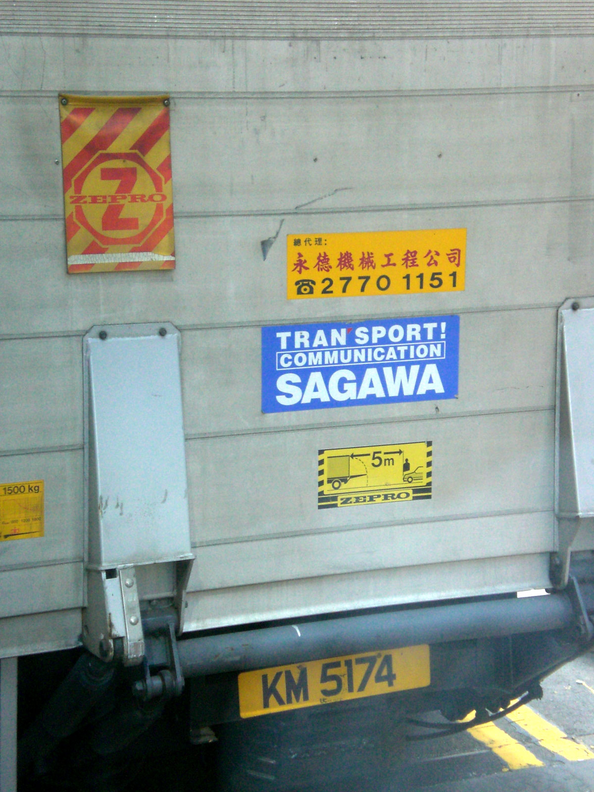 Determination of Truck Mounted self-lifting Tail Board Parameters and Design of Hydraulic System with logo of Sagawa Express [1]